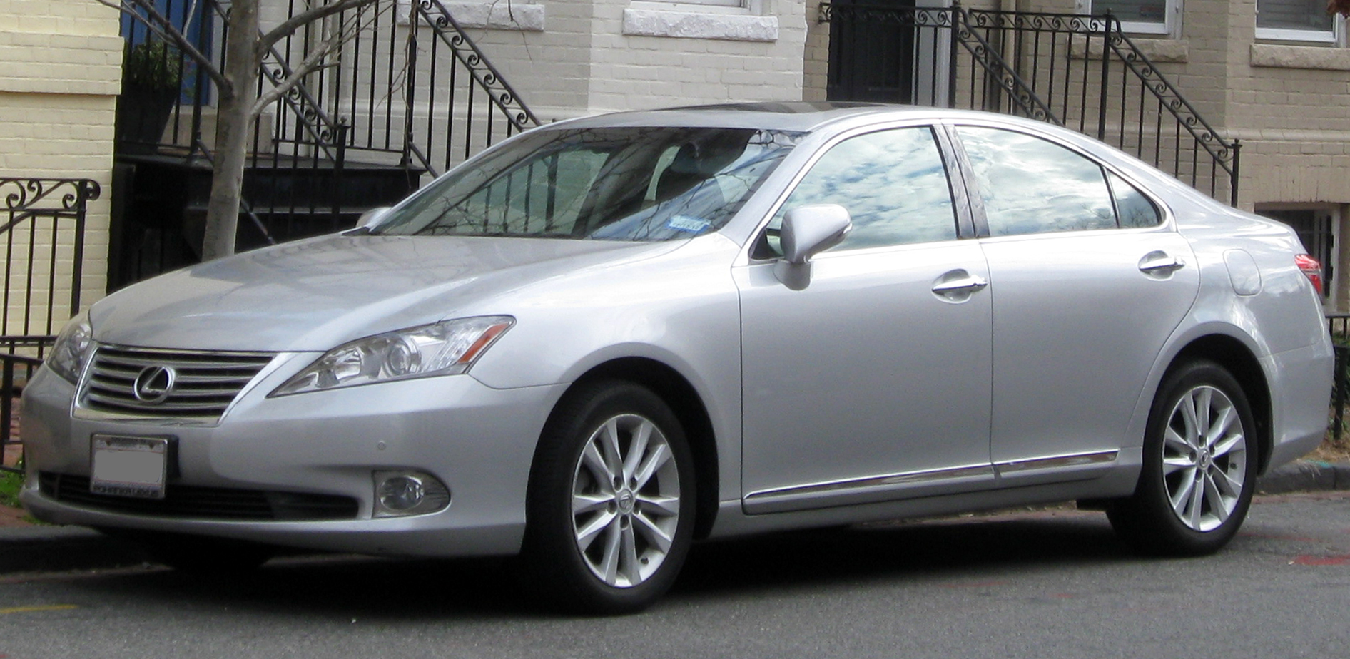 2010-2012 Lexus ES350 photographed in Washington, D.C., USA.